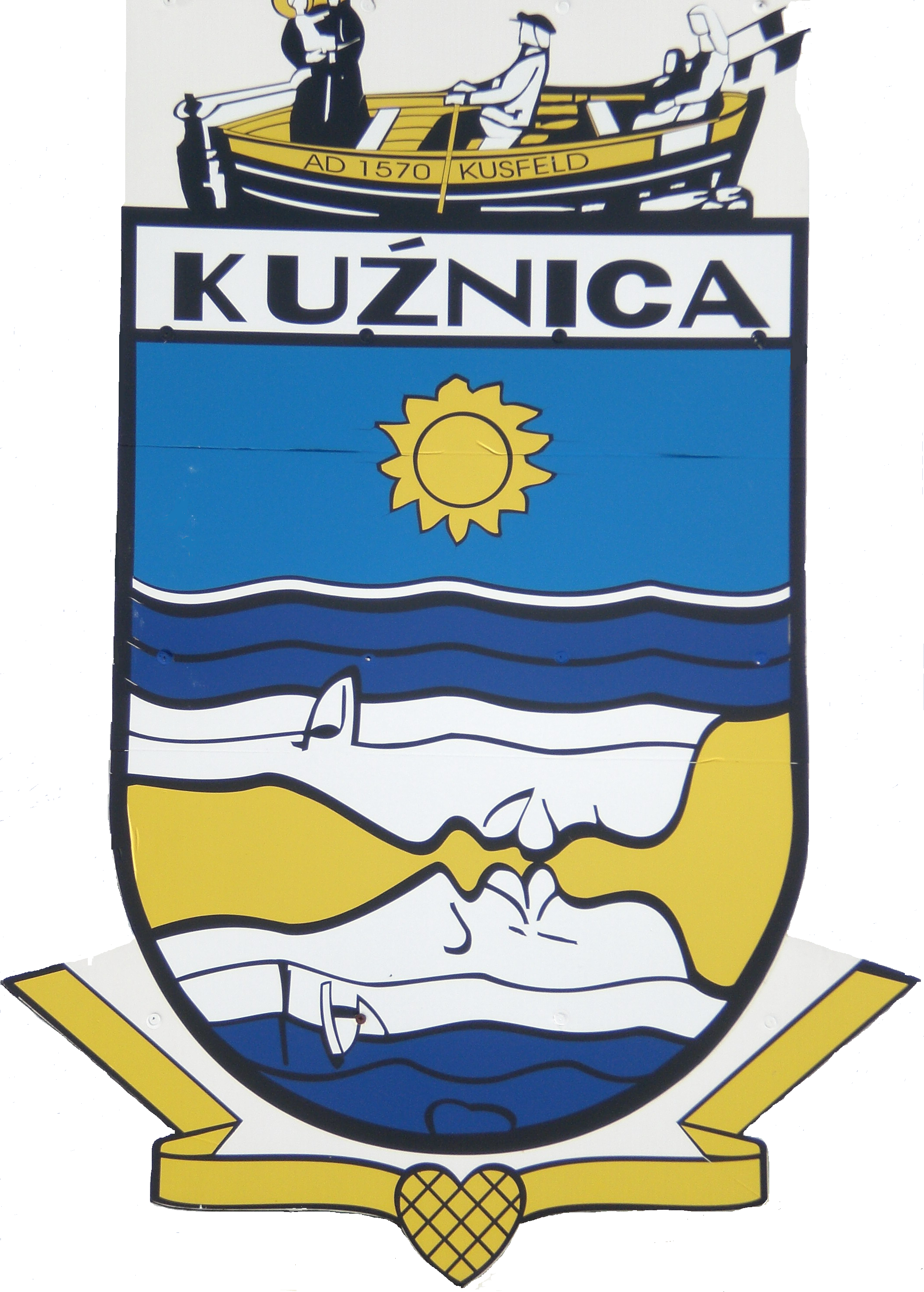 Kuźnica - coat of arms